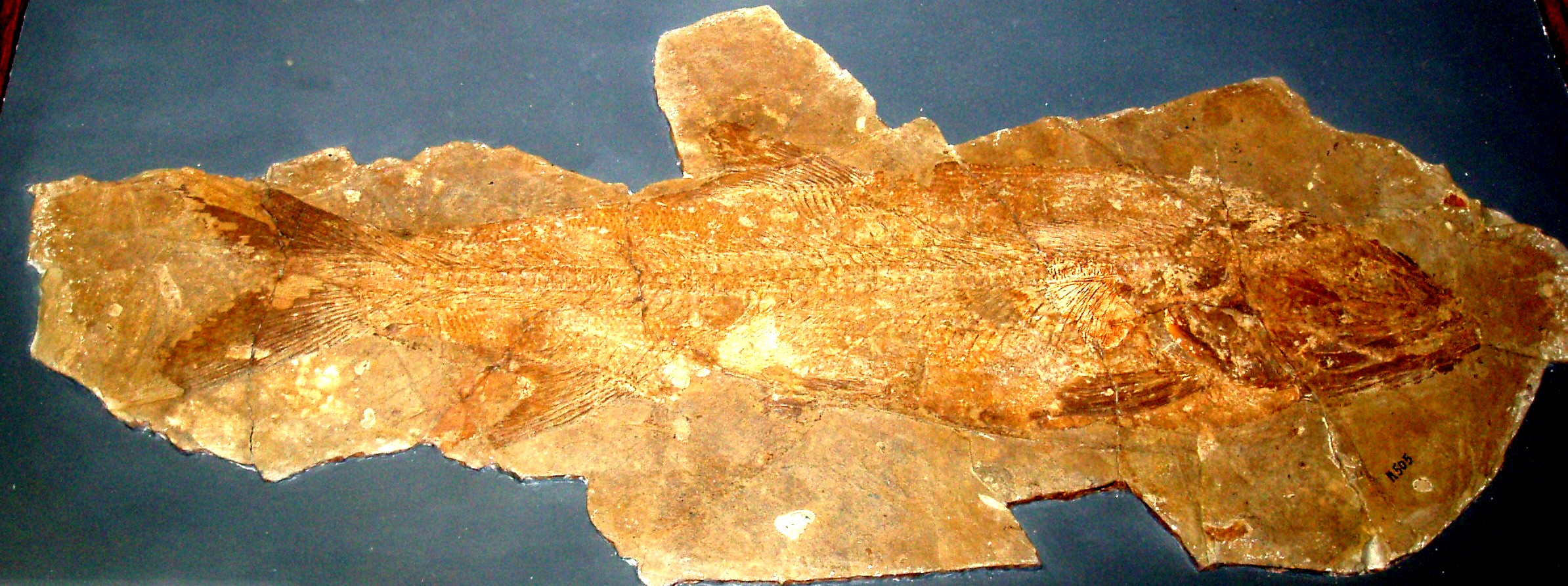 Fossil of Hypsospondylus, an extinct fish